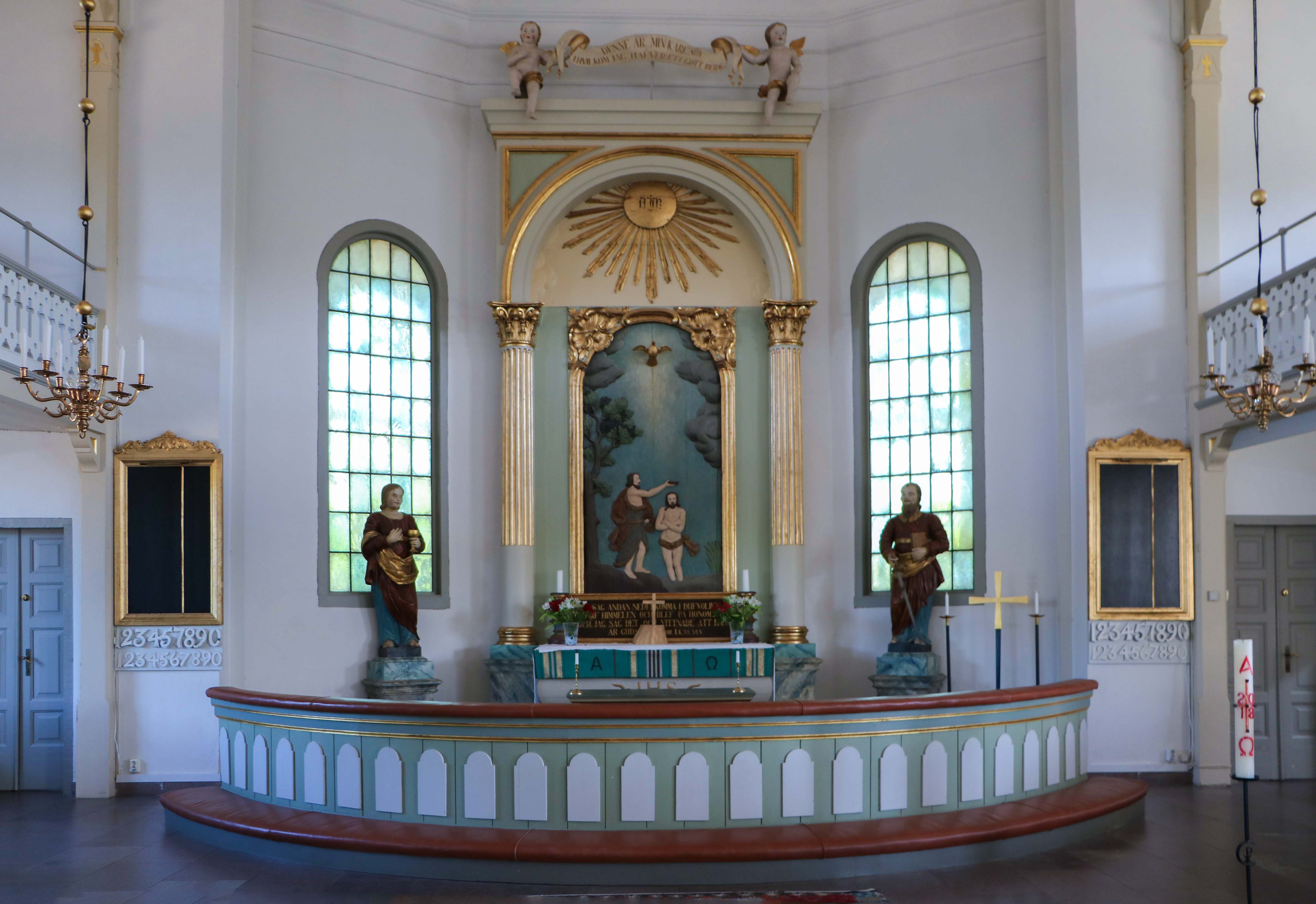 Högby Church. The chancel with Reredos by Anders Dahlström dated 1762 with the design "Christ's baptism". The sculptures on the sides represent the apostles John and Paul.